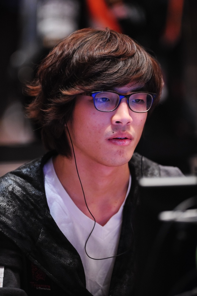 Byun Hyun Woo on IGN ProLeague Season 4